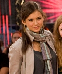 The cast of Degrassi: The Next Generation and Instant Star at the eTalk Festival Party, during the Toronto International Film Festival. Left to right: Nina Dobrev, Charlotte Arnold, Kristopher Turner, Evan Williams, Stacie Mistysyn, Cory Lee, Tyler Kyte, Marc Donato, Shane Kippel, Amanda Stepto